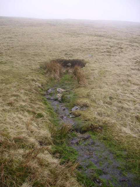 Source of the River Lune One of the three springs under Green Bell which forms Dale Gill and the River Lune. This spring appears to be the one drawn by Wainwright in his Howgill Fells book and suggested as the source of the mighty Lune. Wainwright pokes fun at the citizens of Lancaster for not making this spot a place of pilgrimage. Happily it is not a popular spot and remains wild and remote. Two citizens of Lancaster did worship at the spring today. Luck to Loyne!